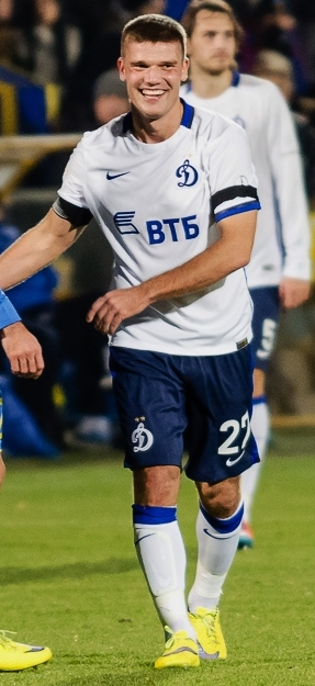 Igor Denisov